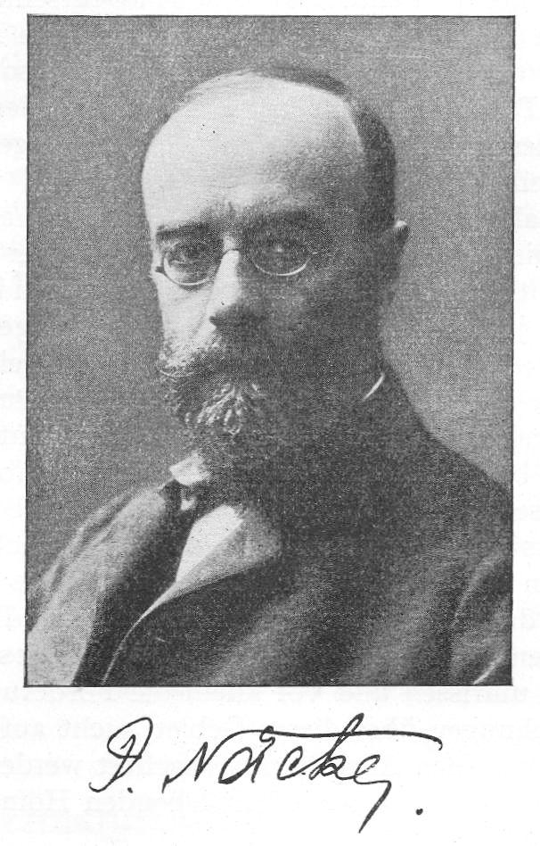 Paul Adolf Näcke, German psychiarist